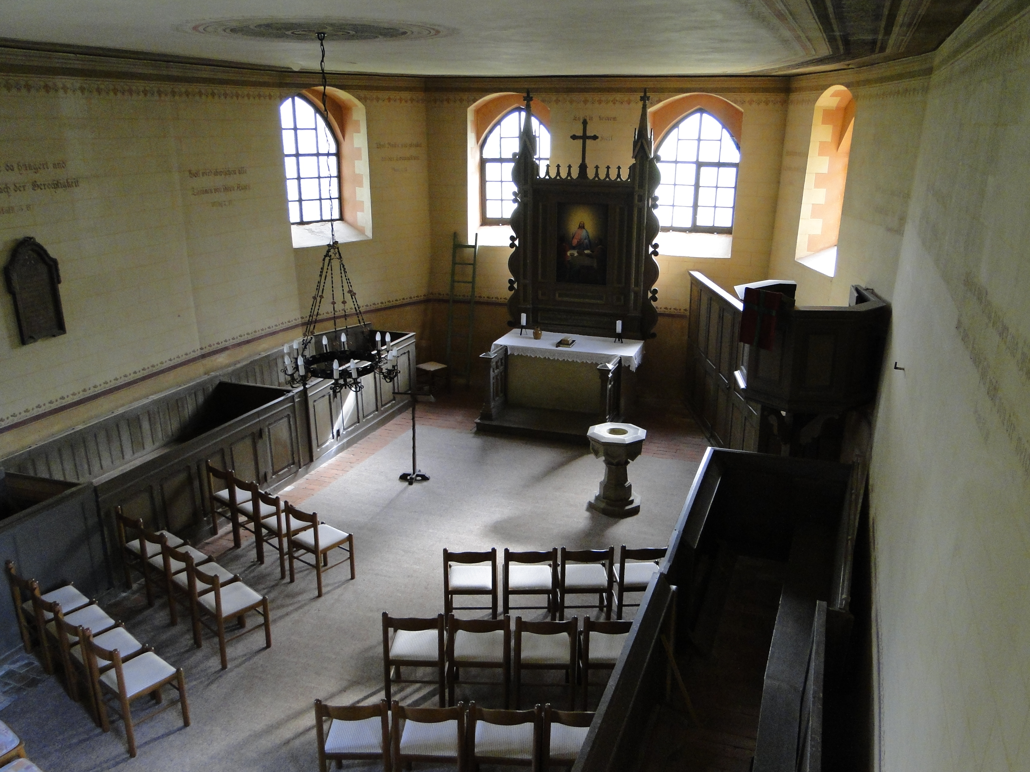 Church in Wessin, district Ludwigslust-Parchim, Mecklenburg-Vorpommern, Germany